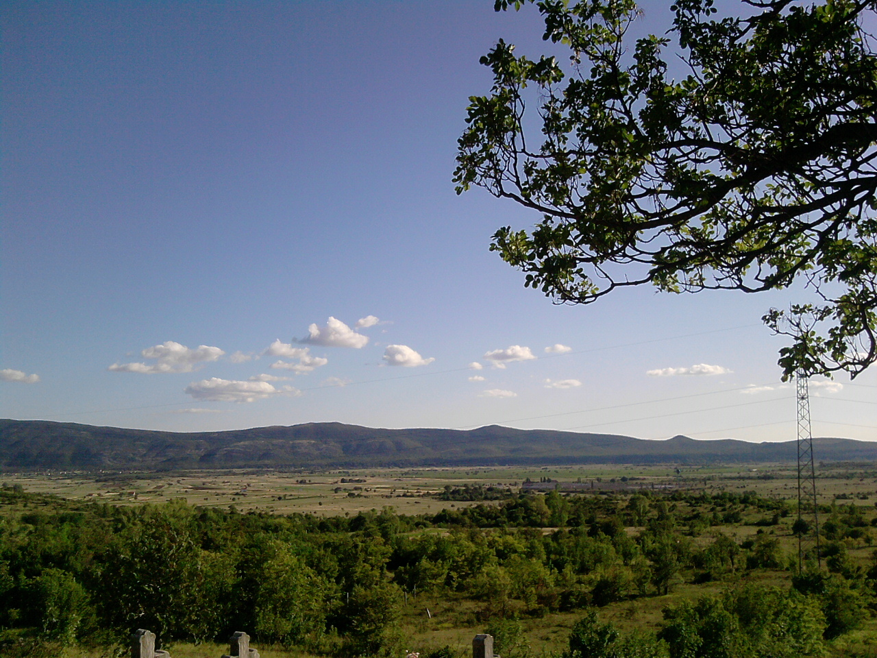 Miočić, Petrovo polje, Croatia.